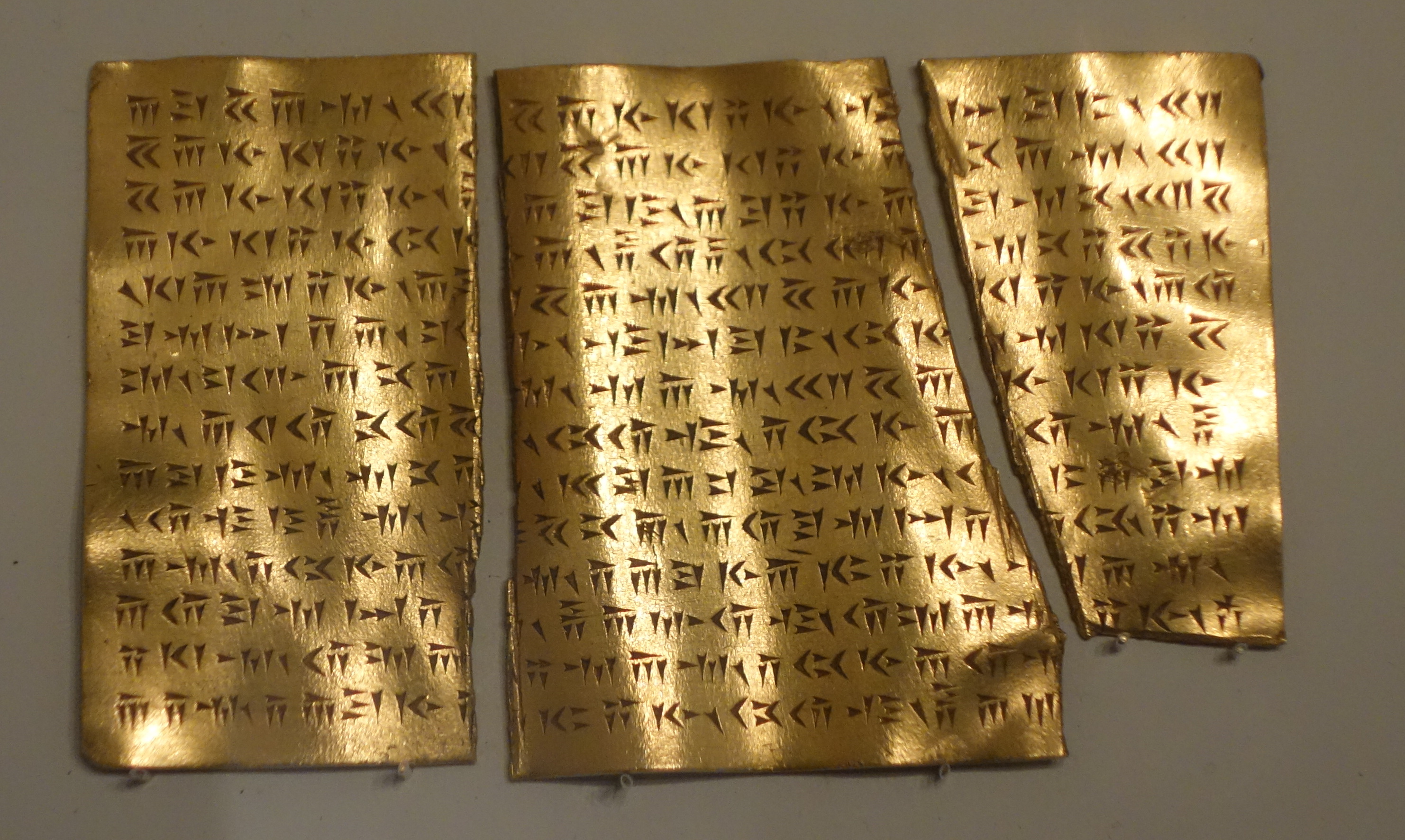 Foundation plaque B inscribed in Old Persian, Iran, Achaemenid period, early 4th century BC, hammered gold